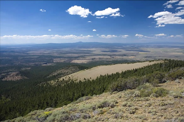 View from summit of Hager Mountain in the Fremont National Forest of south-central Oregon